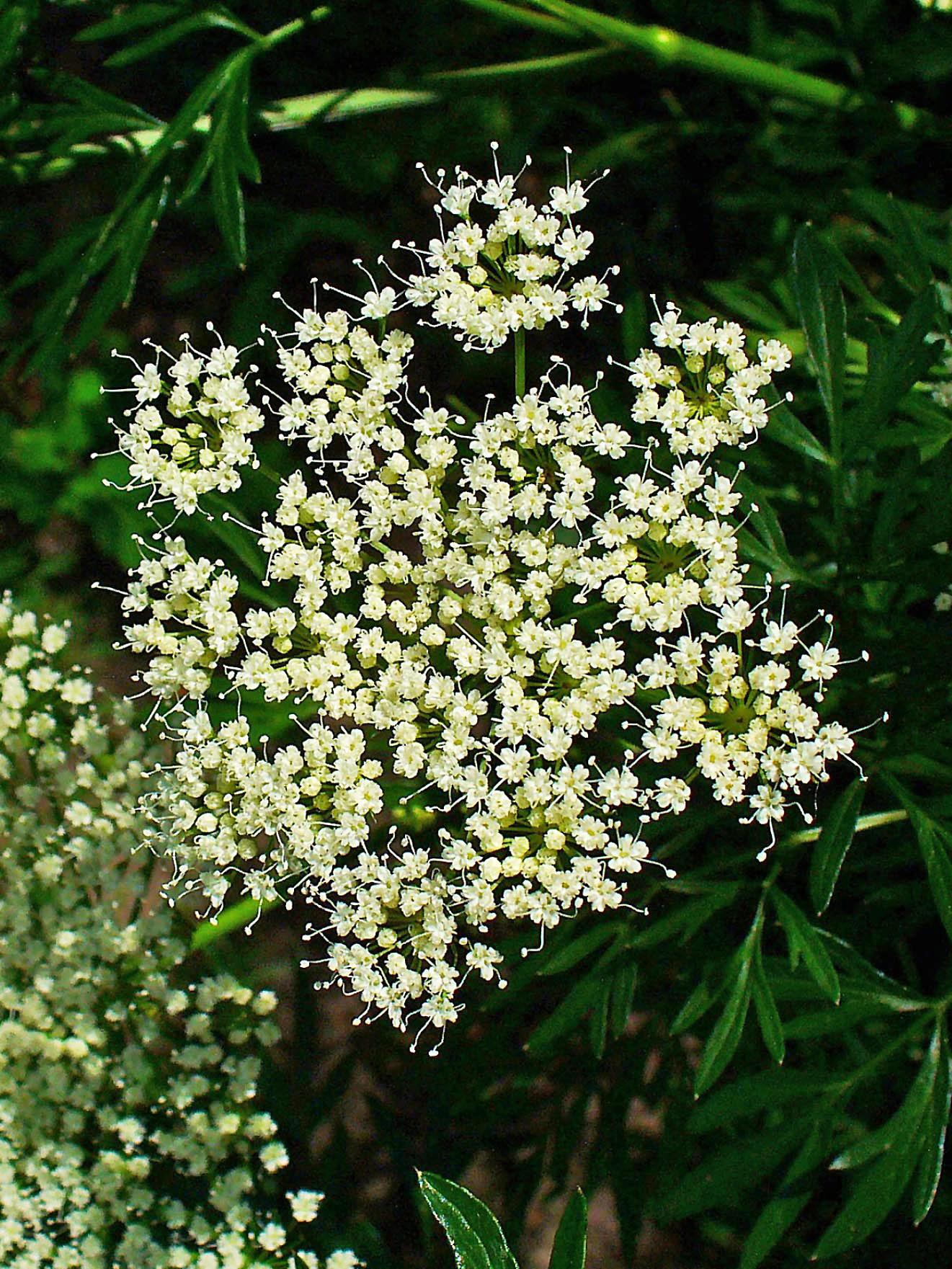 Cnidium silaifolium, Apiaceae, inflorescence; Botanical Garden KIT, Karlsruhe, Germany.